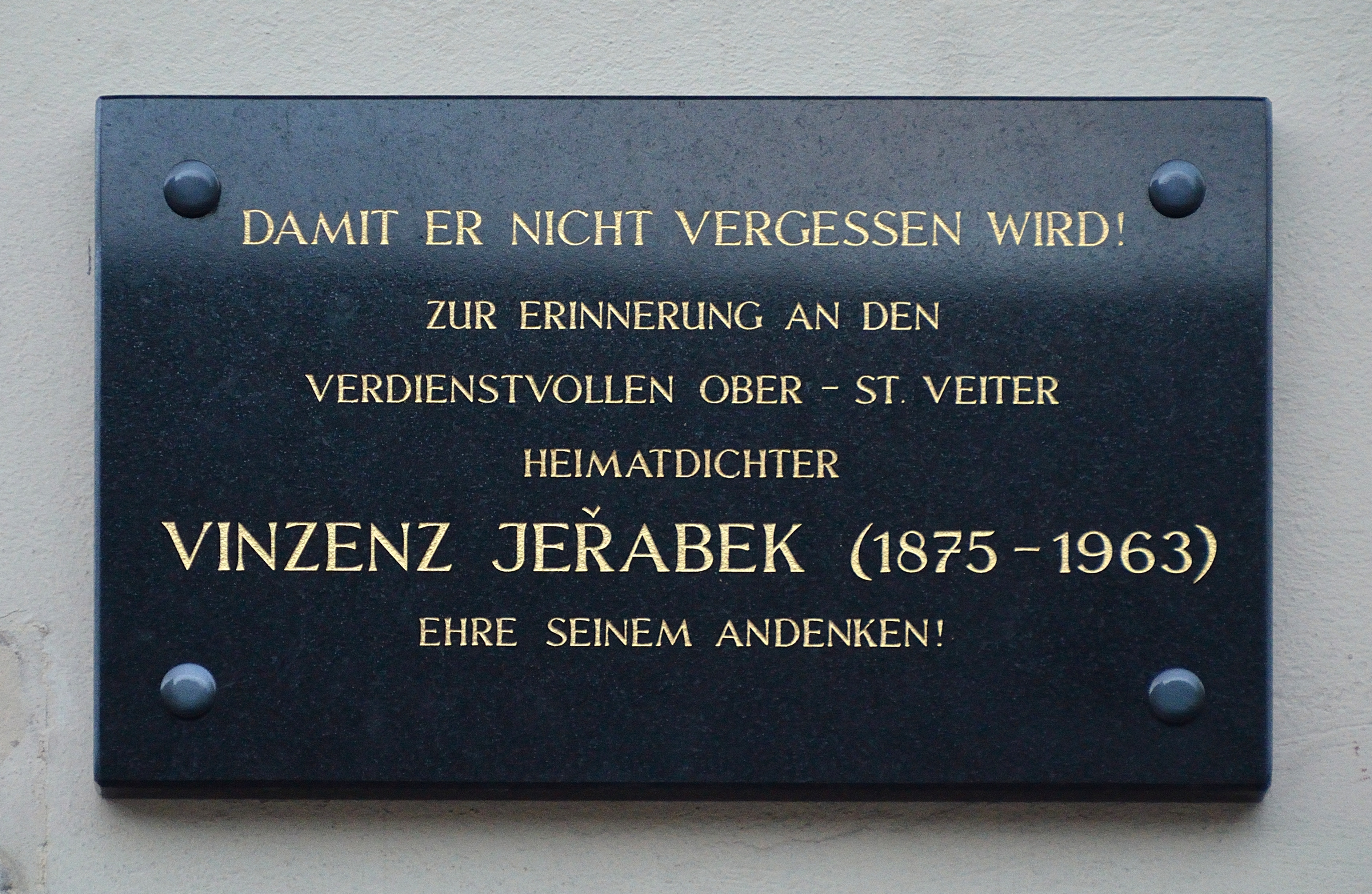 Plaque for the local poet Vinzenz Jerabek (1875-1963). Hietzinger Hauptstraße 141